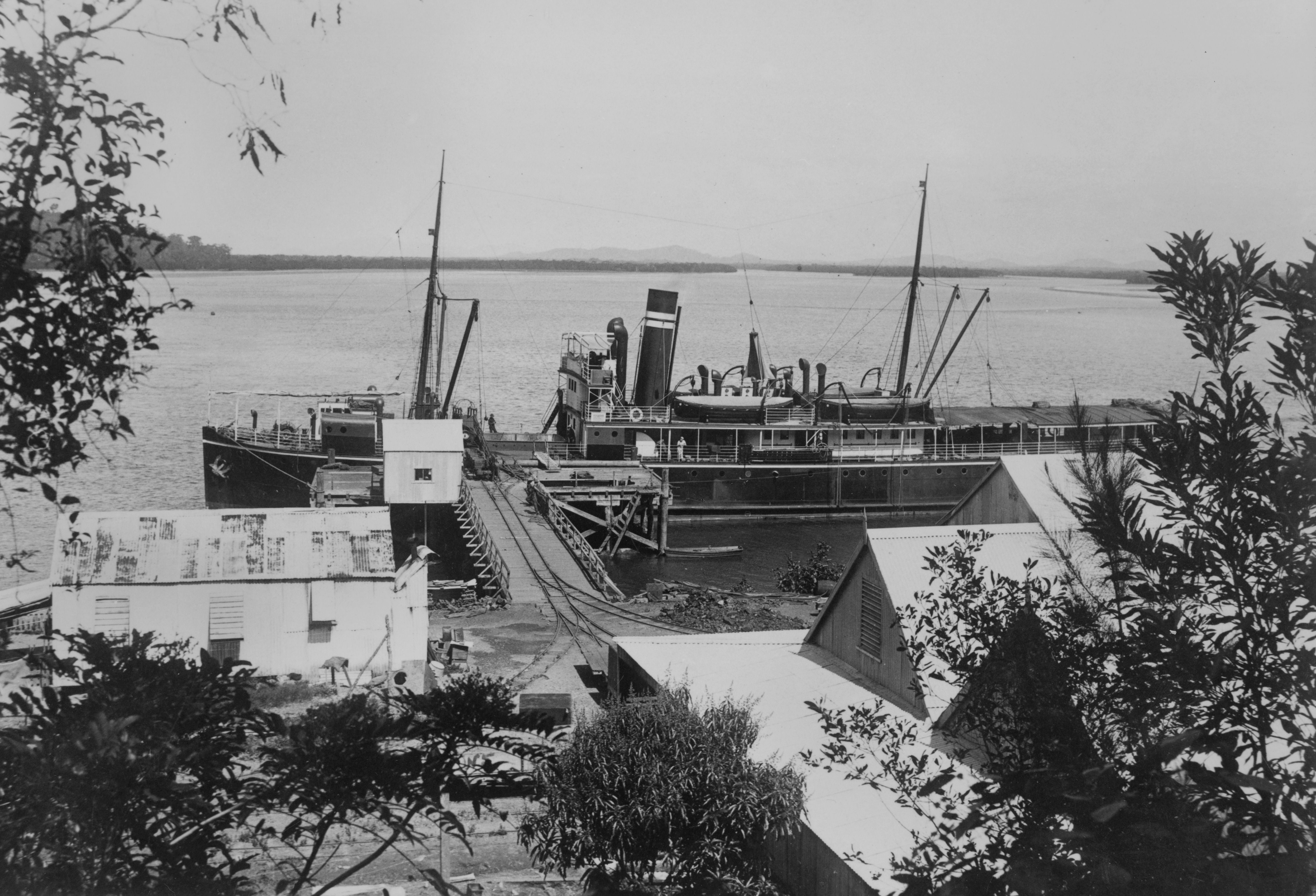 Steamship Kuranda moored at Mourilyan Harbour Wharf, ca. 1914